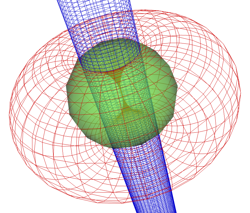 Inversion in a sphere example: inversion of a cylinder passing through the sphere.